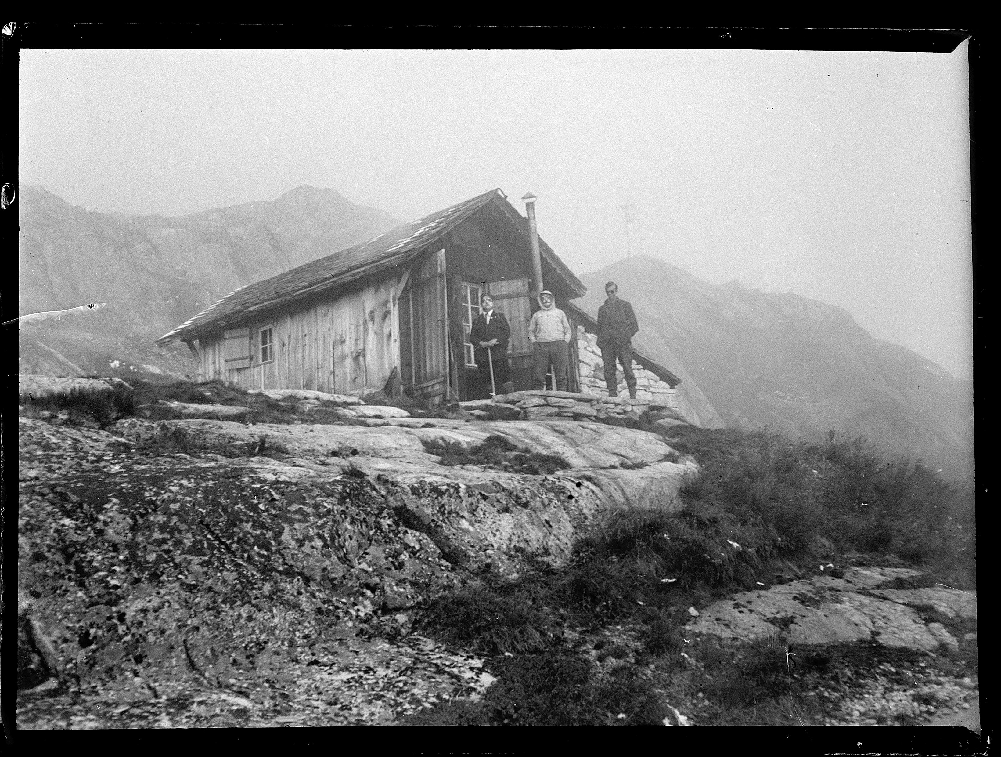 alte Lauteraarhütte, ehemals Dollfus Hütte, Berner Alpen, Schweiz